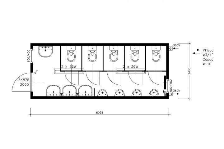 pudorys sanitarniho kontejneru